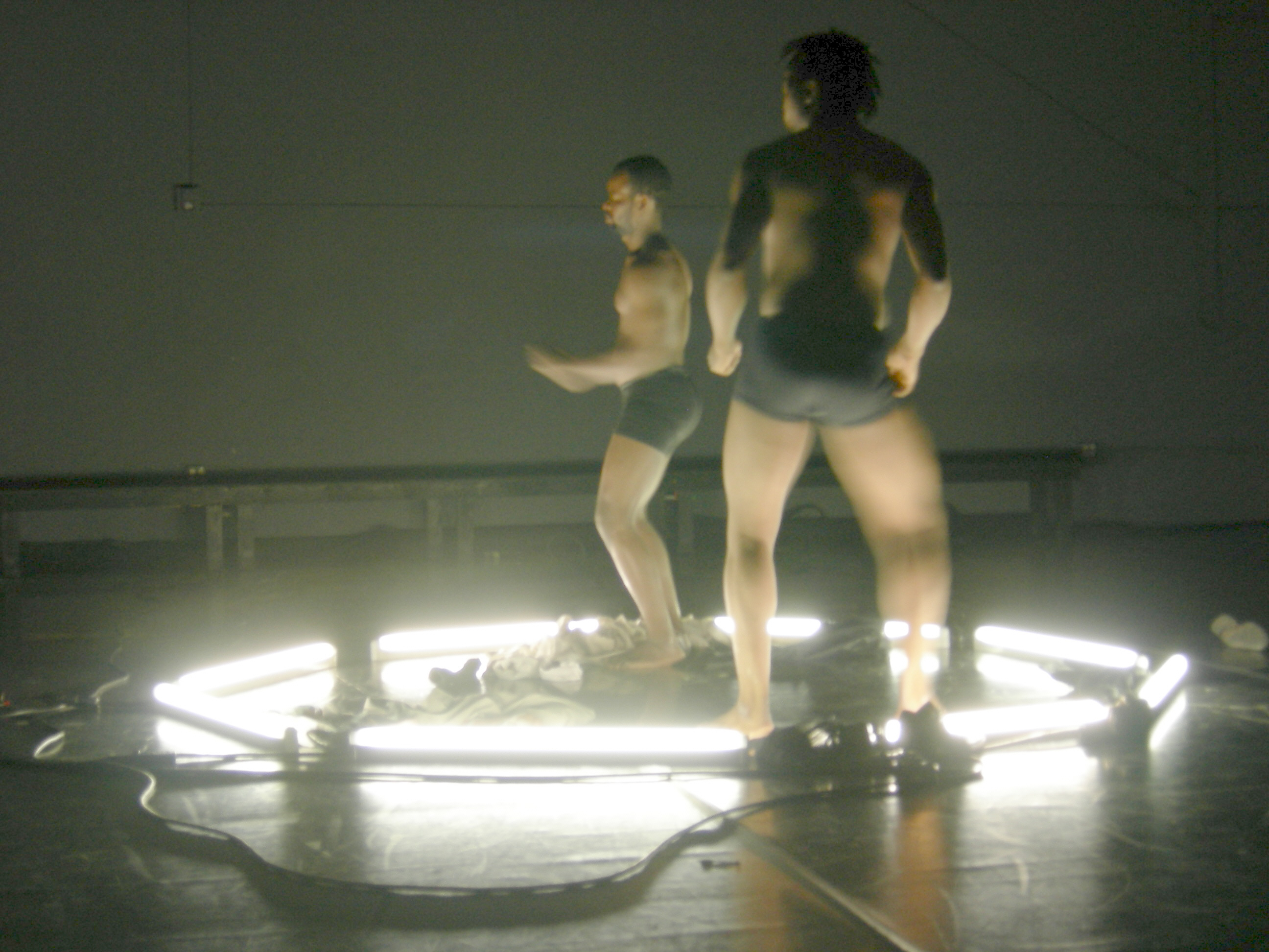 Festival of Lies performed at On the Boards, Seattle, Washington, USA by Congolese dance theater troupe Studios Kabako with the participation of dancer/choreographer Faustin Linyekula.